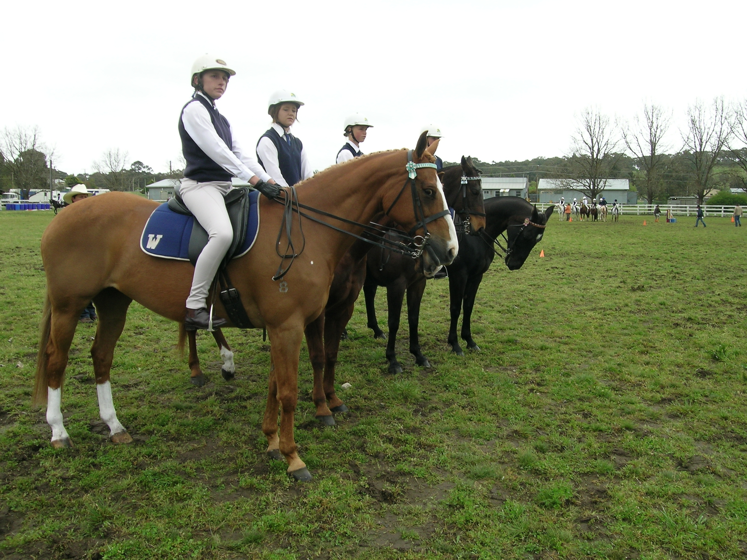 Pony club members competing in hack events at a gymkhana.